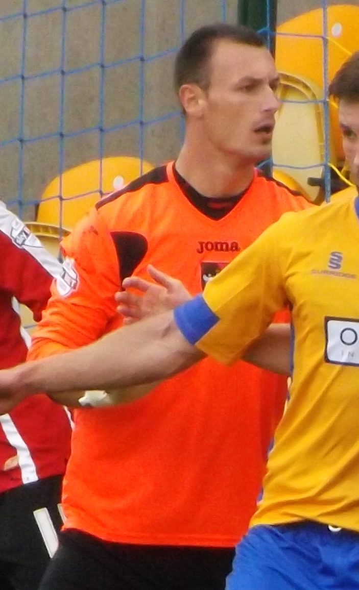 Artur Krysiak playing for Exeter City against Mansfield Town at Field Mill, Mansfield on 10 August 2013